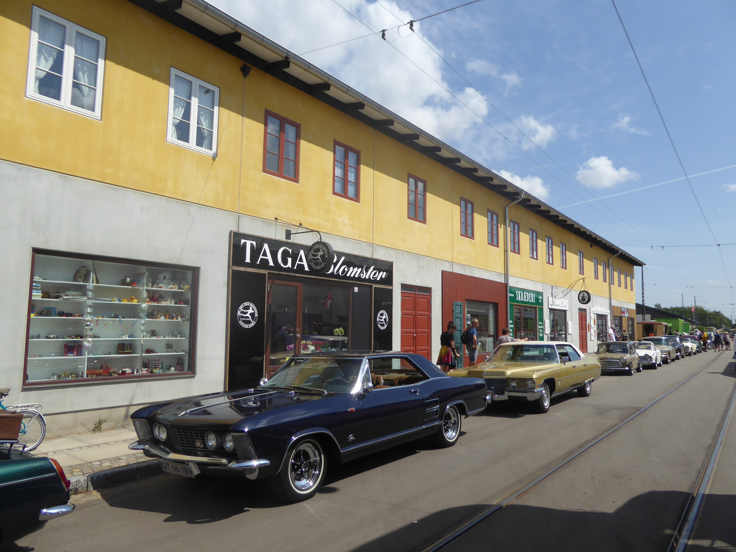 Reconstructions of a flower shop and other shops as part of the tram depot Remise 3 at Sporvejsmuseet Skjoldenæsholm in Denmark. One side of the depot is made to look like a row of buildings with various shops. The automobiles are due to a gathering of historical automobiles at the museum that day.